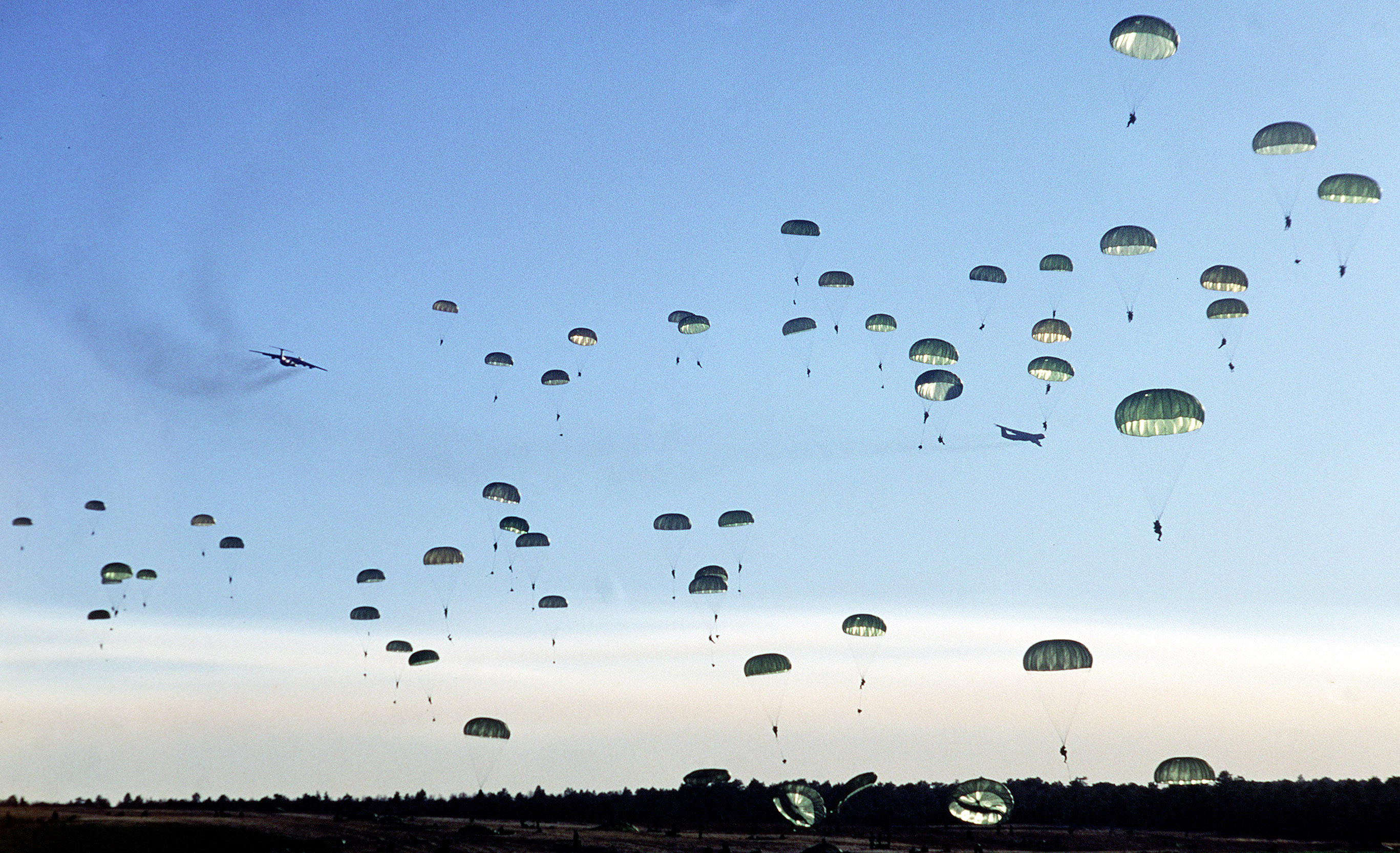 original Description: Soldiers of the U.S. Army's 82nd Airborne float to the ground at Normandy drop zone on Fort Bragg, N.C., after jumping from U.S. Air Force C-141 Starlifters on Jan. 20, 1999. The soldiers are participating in Large Package Week, a joint exercise involving Air Force aircraft operating from Pope and soldiers of the U.S. Army's 82nd Airborne, at Fort Bragg, N.C. DoD photo by John Sidoriak Jr., U.S. Air Force.